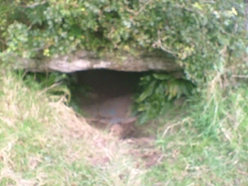 Photo of souterain which leads into Owenagcat-The cave of Cruachan. Taken in Sep. 2005